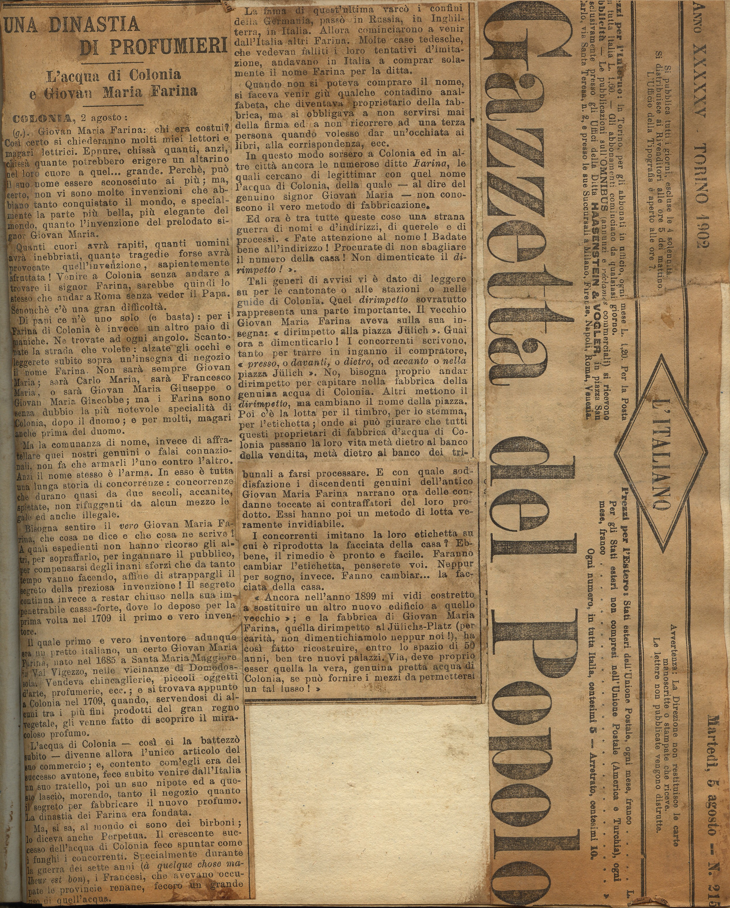 L´acqua di Colonia e Gian Maria Farina